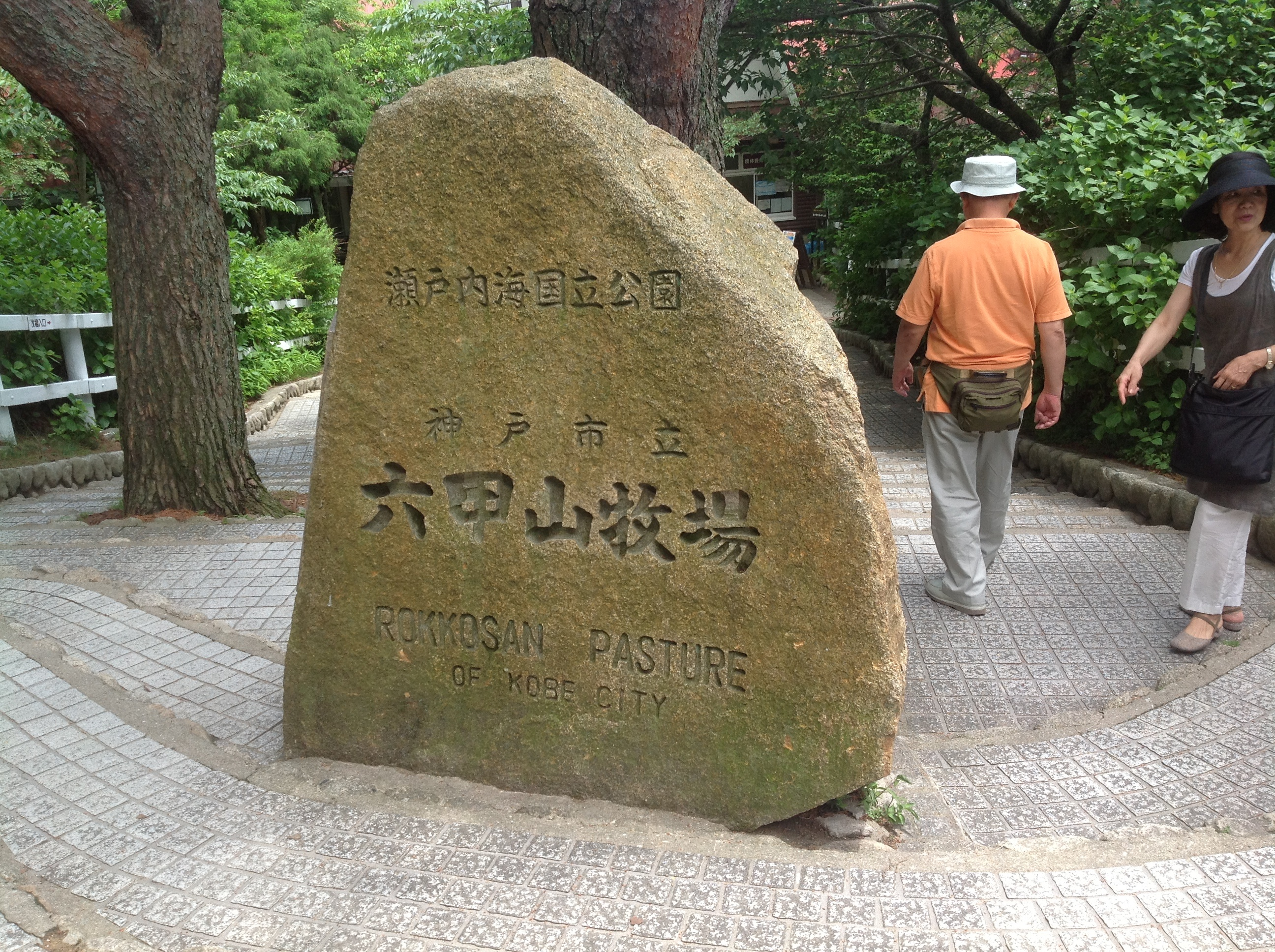 A stone indicating the entrance of the Rokkosan Pasture and Cheese House located at the 931 metre tall Mount Rokko in Hyogo Prefecture, Kobe, Japan. Took a snapshot of this when I visited the place this afternoon, on June 16, 2013.